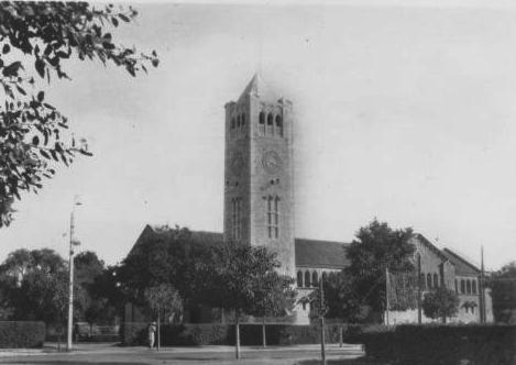 All Saints' Anglican Cathedral on Gordon Avenue, Khartoum, Sudan